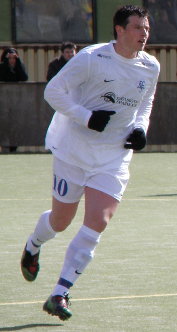 Jón Krosslá Poulsen is a Faroese football player. In 2010 he is playing with FC Suðuroy in Vodafonedeildin. On 12 June 2010 he scored his 4th goal for FC Suðuroy in this season (2010 season) and became top-scorer for the team. Before that they were two who had scored 3 goals each. Jón Krosslá Poulsen has played some international games for U-17, U-19 and U-21 Faroe Islands national teams. He has scored one goal for U-19 against Norway on 31 July 2006. Faroe Islands U-17 won the match 1-0. (His name is written "Jón Krosslág" on the football.fo website, Krosslá is his middle name, Poulsen is the surname. Føroyskt: Jón Krosslá Poulsen er føroyskur fótbóltsspælari. Hann spælir í 2010 við FC Suðuroy í Vodafonedeildini. 12. juni 2010 skeyt hann sítt 4. mál fyri liðið í dystinum móti NSÍ, sum FC Suðuroy tapti 2-1. Við málinum gjørdist Jón einsamallur toppskorari fyri FC Suðuroy í ár (2010) við 4 málum. Áðrenn dystin móti NSÍ vóru Jón Krosslá Poulsen og Obi Charles toppskorarir við 3 málum hvør. Jón Krosslá Poulsen er eisini ein av mest skorandi fótbóltsleikarunum hjá FC Suðuroy, VB/Sumba og VB yvirhøvur (í bestu deildini hjá felagnum). 12. juni 2010 hevur hann skorað 53 mál og er harvið nummar 3 saman við Birgir Jørgensen. Jón Krosslá Poulsen hevur spælt fleiri landsdystir fyri ungdómslandsliðini hjá Føroyum: U-17, U-19 og U-21. Hann hevur eisini skorað eitt mál fyri Føroyar U-19 í dystinum móti Noregi, sum Føroyar vann 1-0. Dysturin varð spældur 31. juli 2006.